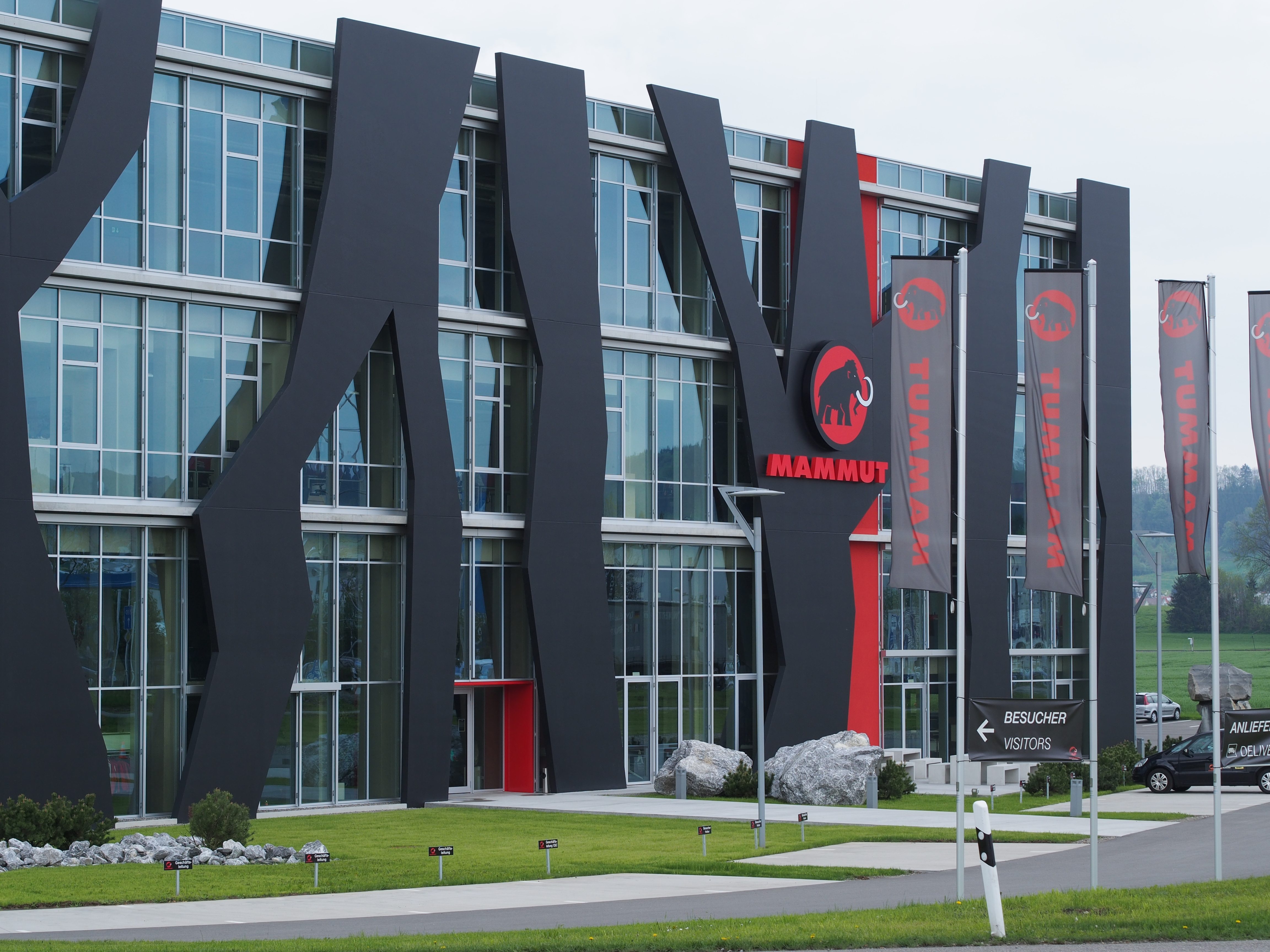 Mammut company plant in Wolfertschwenden, Germany